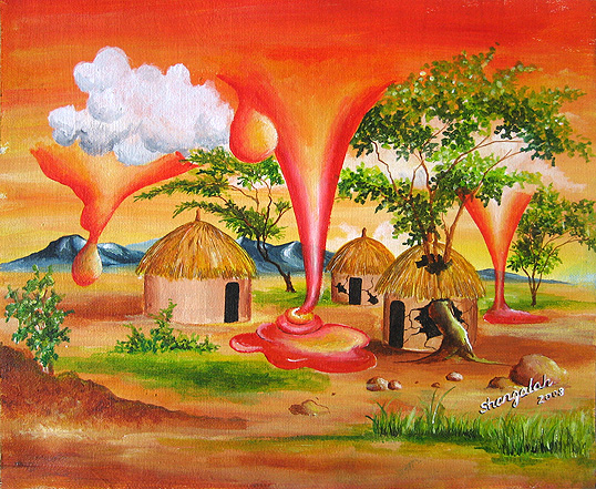 "Melting Sky" by Abraham Shangala Ngume (Raham), Kenya - (32 x 26cm), acrylic on canvas